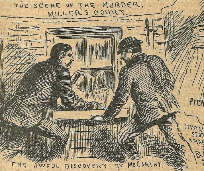 The Illustrated Police News - 17 November 1888 - The scene of the murder, Miller's Court